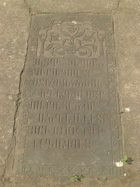 One of the older tombstones in the Armenian Church, Dhaka. The oldest grave dated back to 1762, which predates the church. Back then a small chapel existed here. The following info is courtesy of armenianlectionary. Ays e tapan Kirakos Ter Stephanosi hokedoustr Sarayin wor hangeav 'i Ter yami 1810 shpath 14 Daqay "This is the tombstone of Sara, the adopted daughter of Kirakos Ter Stephanos, who has taken rest in the Lord, in the year 1810, on Saturday [the month is not indicated] the 14th, in Dakka."